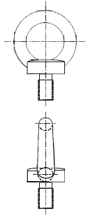 Cancamo de espiga fija